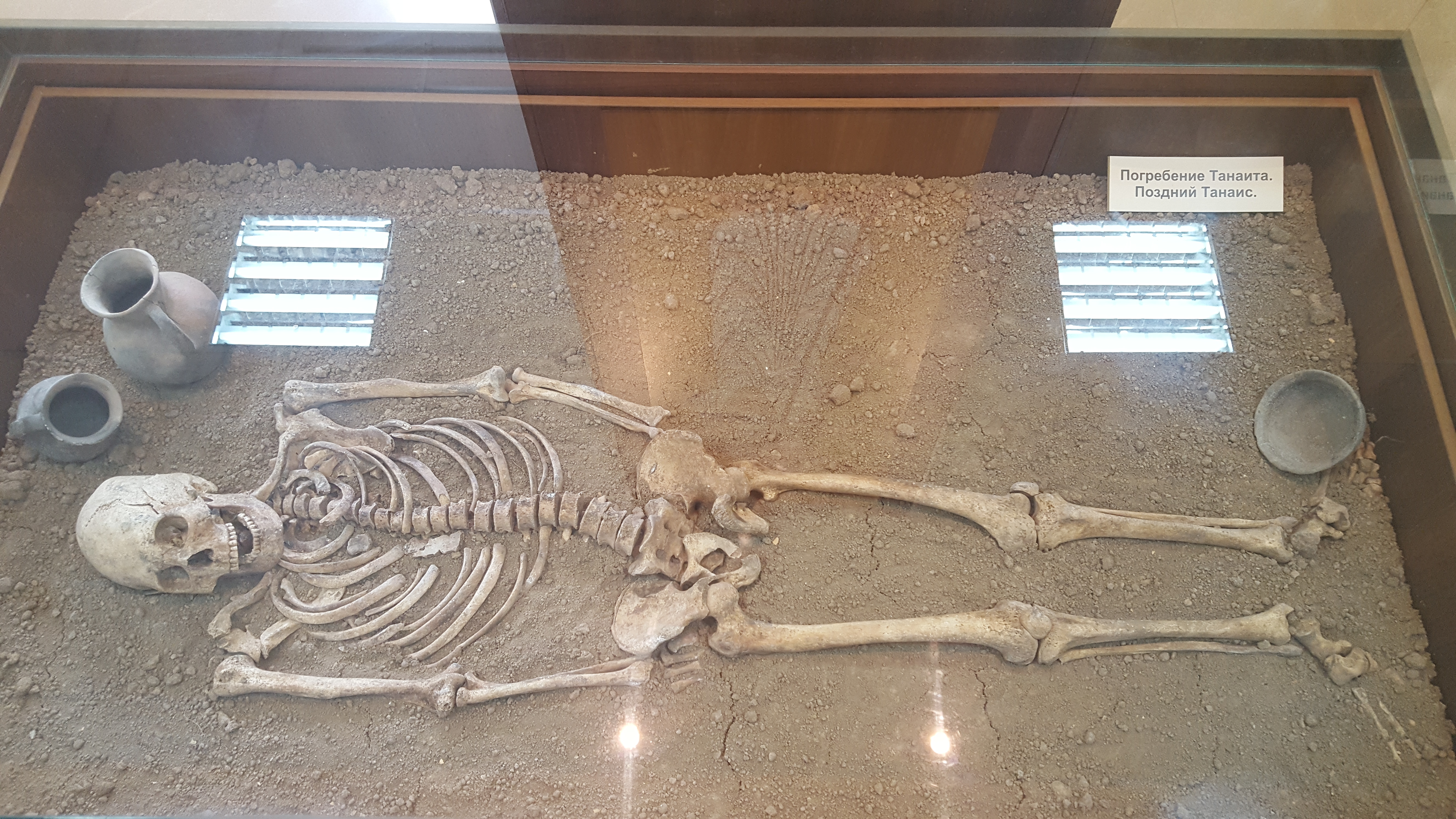 Exhibits of the Tanais museum: an excavated burial of ancient Tanais resident.